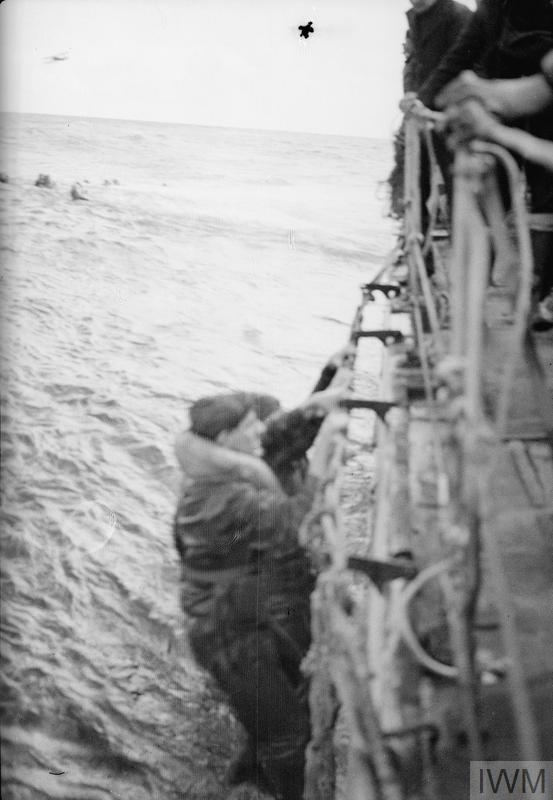 U-boat survivors clambering aboard HMS ESCAPADE, others can still be seen swimming.